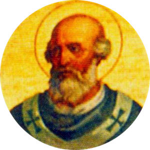 Portait of Pope Eugene I in the Basilica of Saint Paul Outside the Walls, Rome